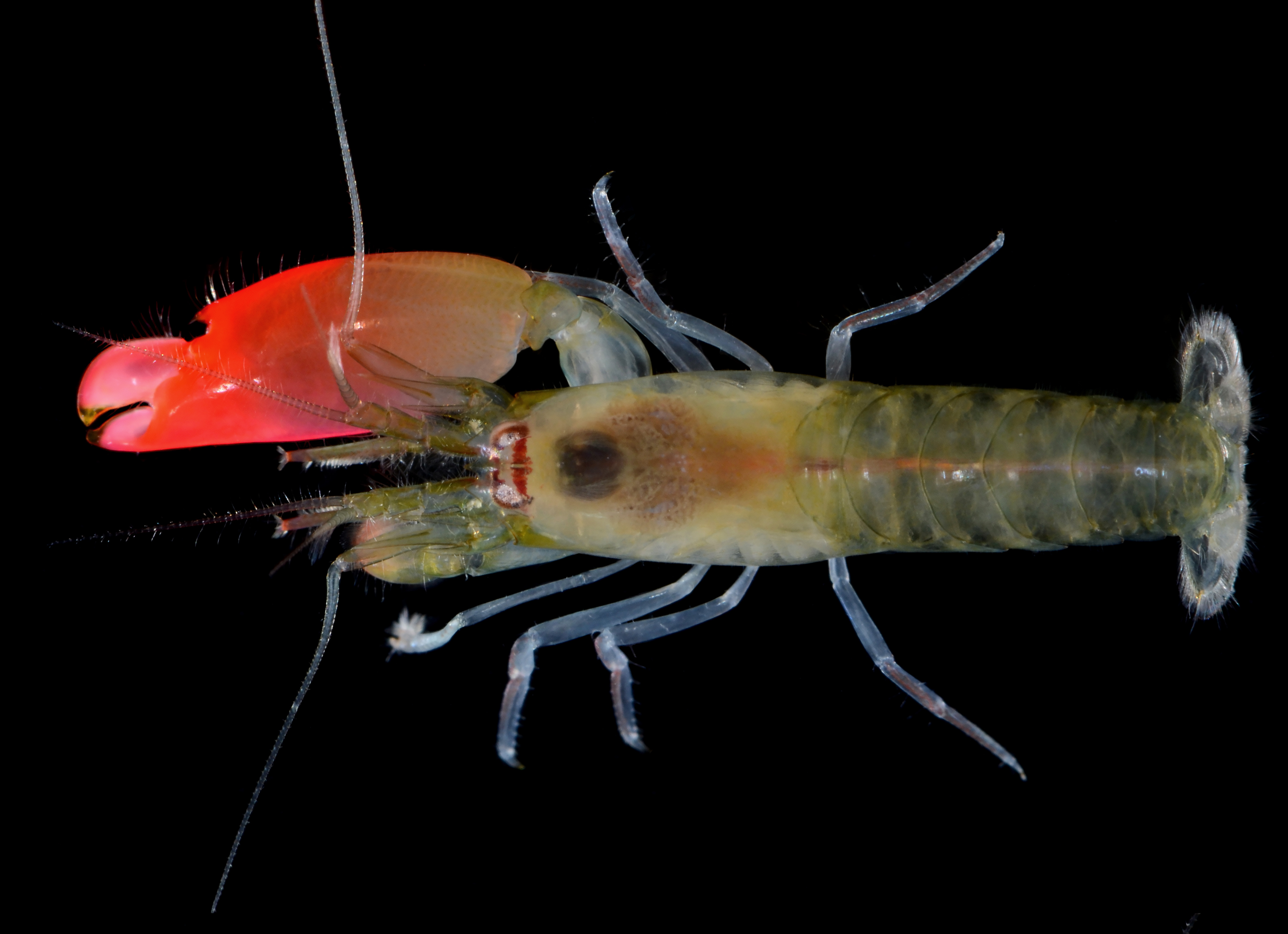 Synalpheus pinkfloydi male, from the Las Perlas Archipelago, Panama